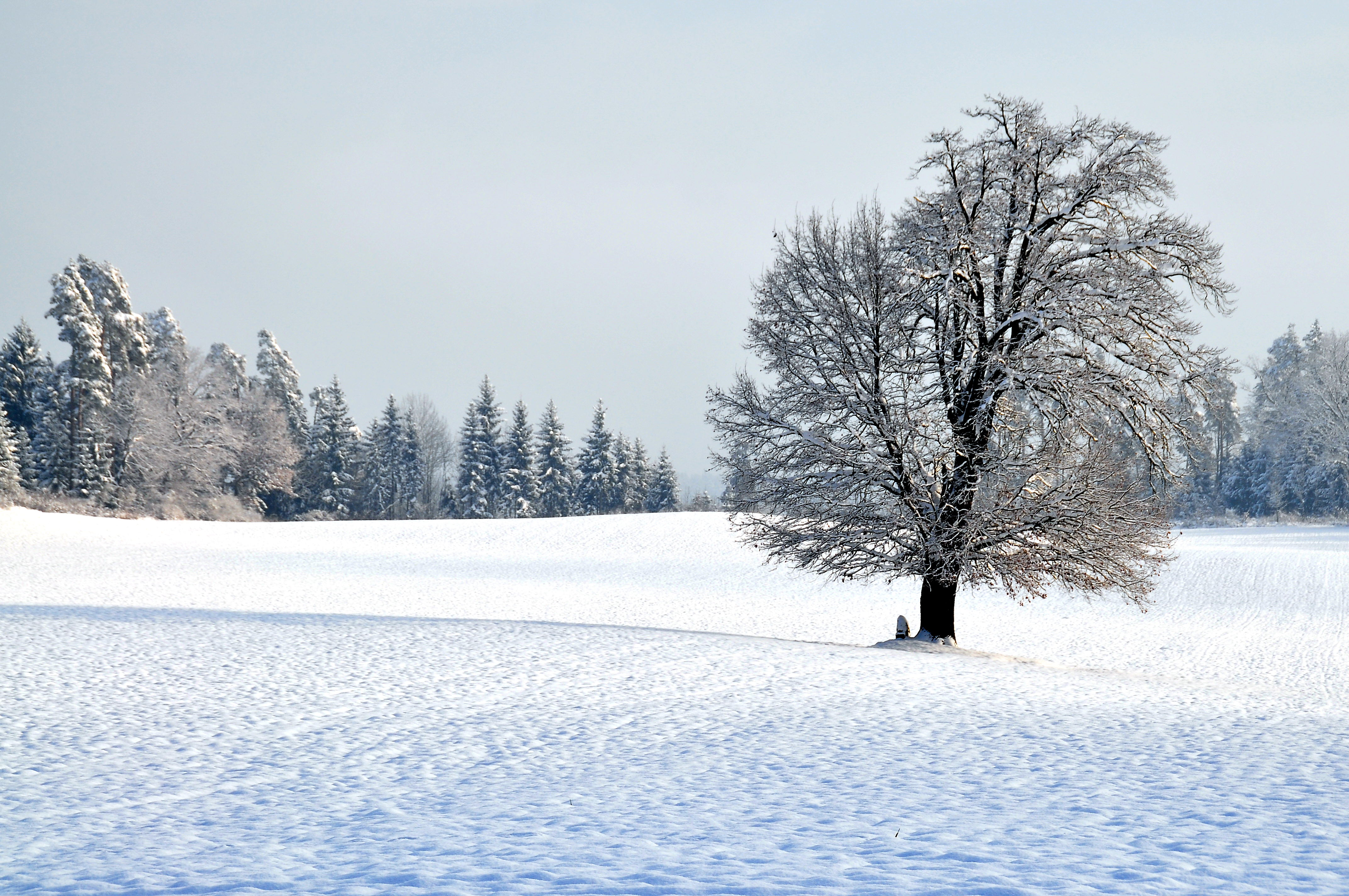 Solitaire tree amidst farmland in the locality Hoertendorf in the 15th district "Hoertendorf" of Carinthia`s capital Klagenfurt, Carinthia, Austria, EU